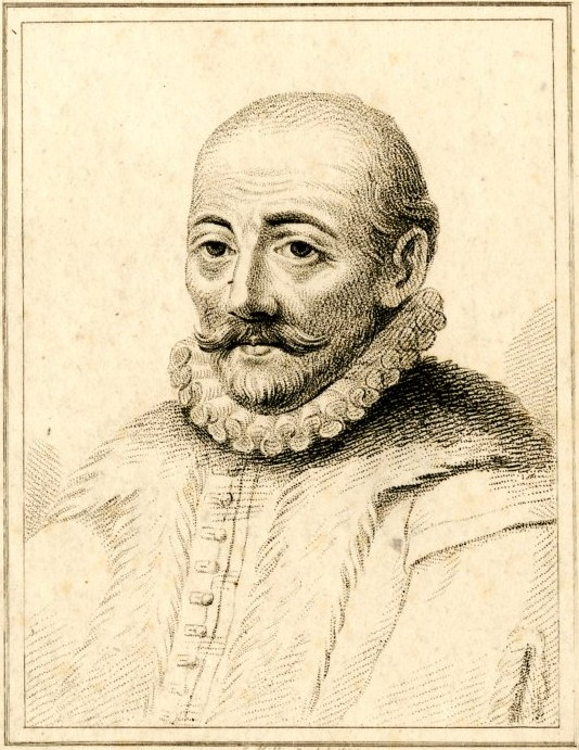 Portrait of William Patten (c. 1510 – after 1598), English author, scholar and government official.